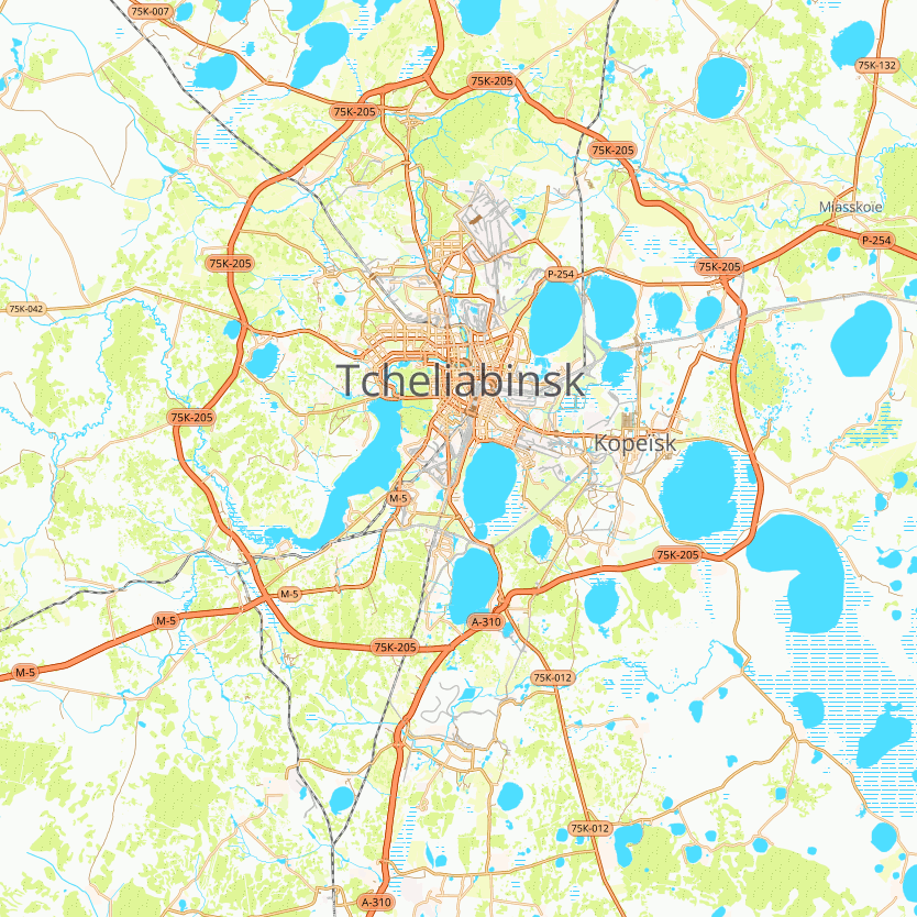 Roads around Chelyabinsk, Russia with labels in French. Map data – OpenStreetMap, rendered by alaCarte